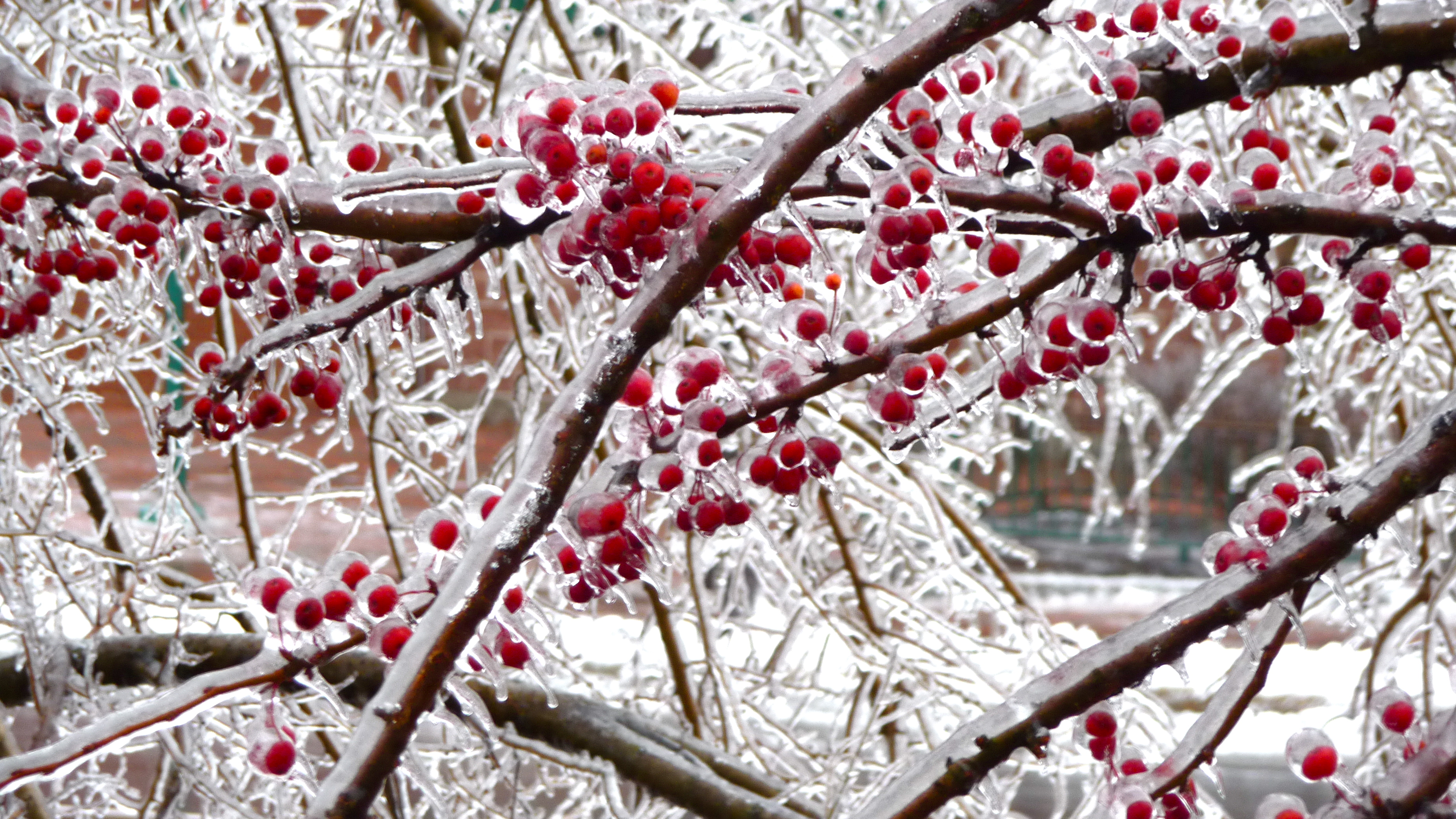 Cherry ice